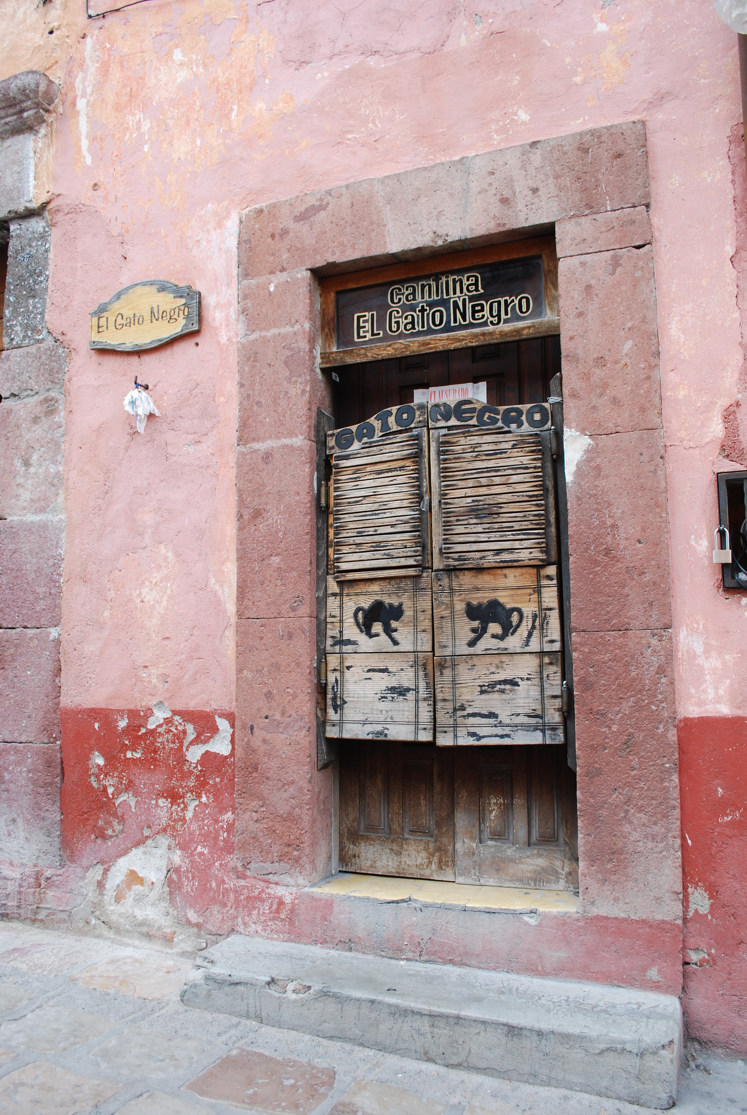 Gato Negro Cantina in San Miguel de Allende, Guanjuato, Mexico